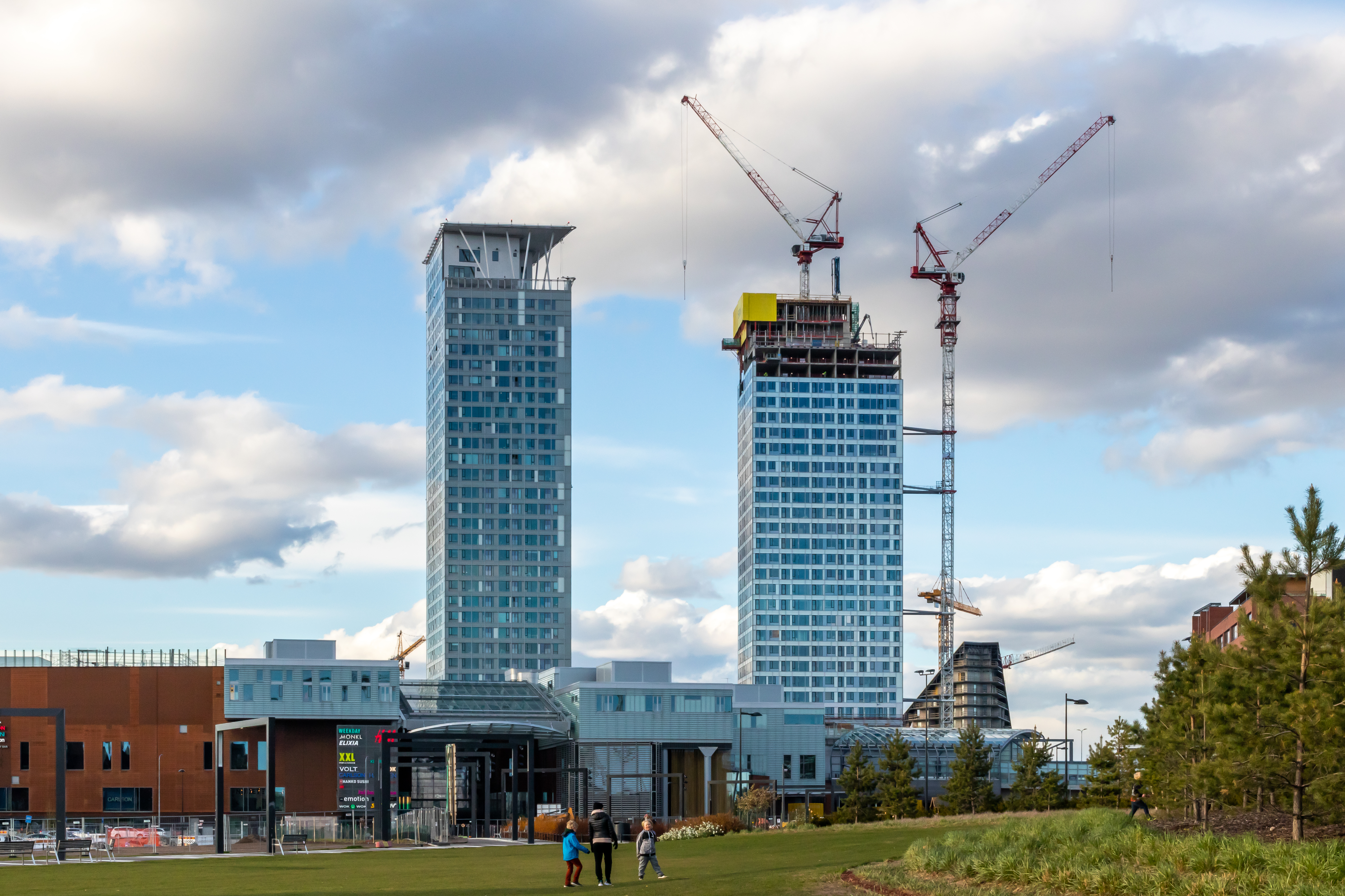 Majakka (finished) and Loisto (under construction) apartment buildings in Kalasatama, Helsinki, Finland.